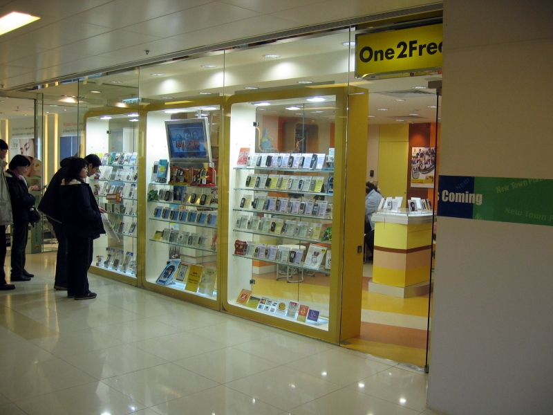 One2Free Store in New Town Plaza